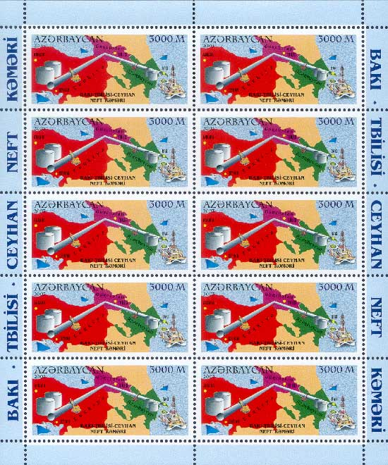 Stamp of Azerbaijan